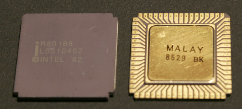 Intel 80188 CPU, frontside and rearside